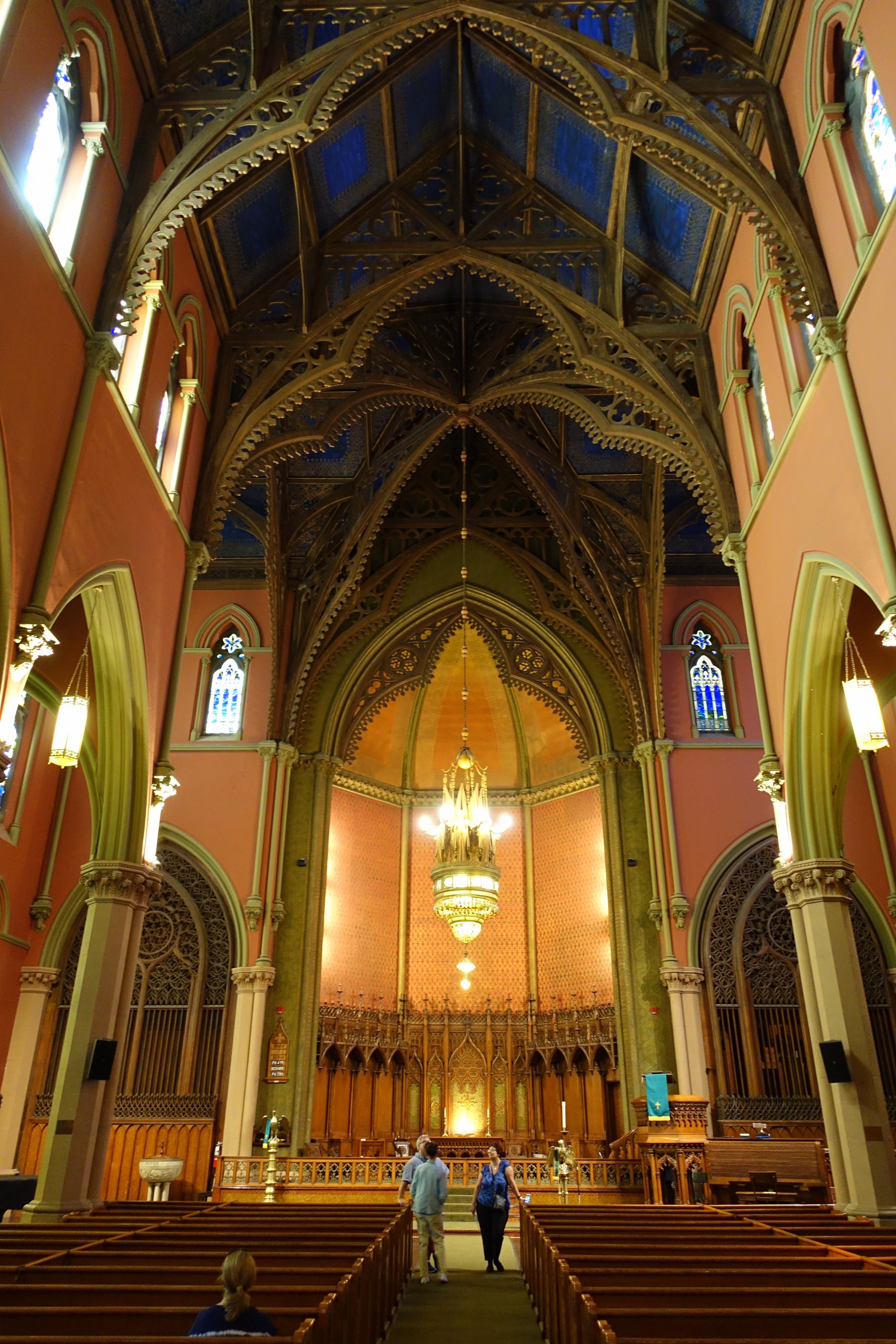 Interior view of the Church of the Covenant, 67 Newbury Street, Boston, Massachusetts, USA. Most of the interior design by Tiffany Studios. This artwork is in the public domain because the artist(s) died more than 70 years ago.